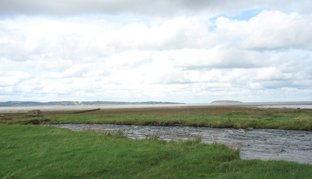 The Estuary of Afon Aber The river has been canalised between the A55 and the sea.